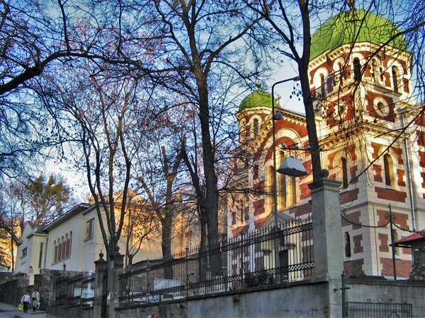 Russian church and Russian culture center in Lviv.